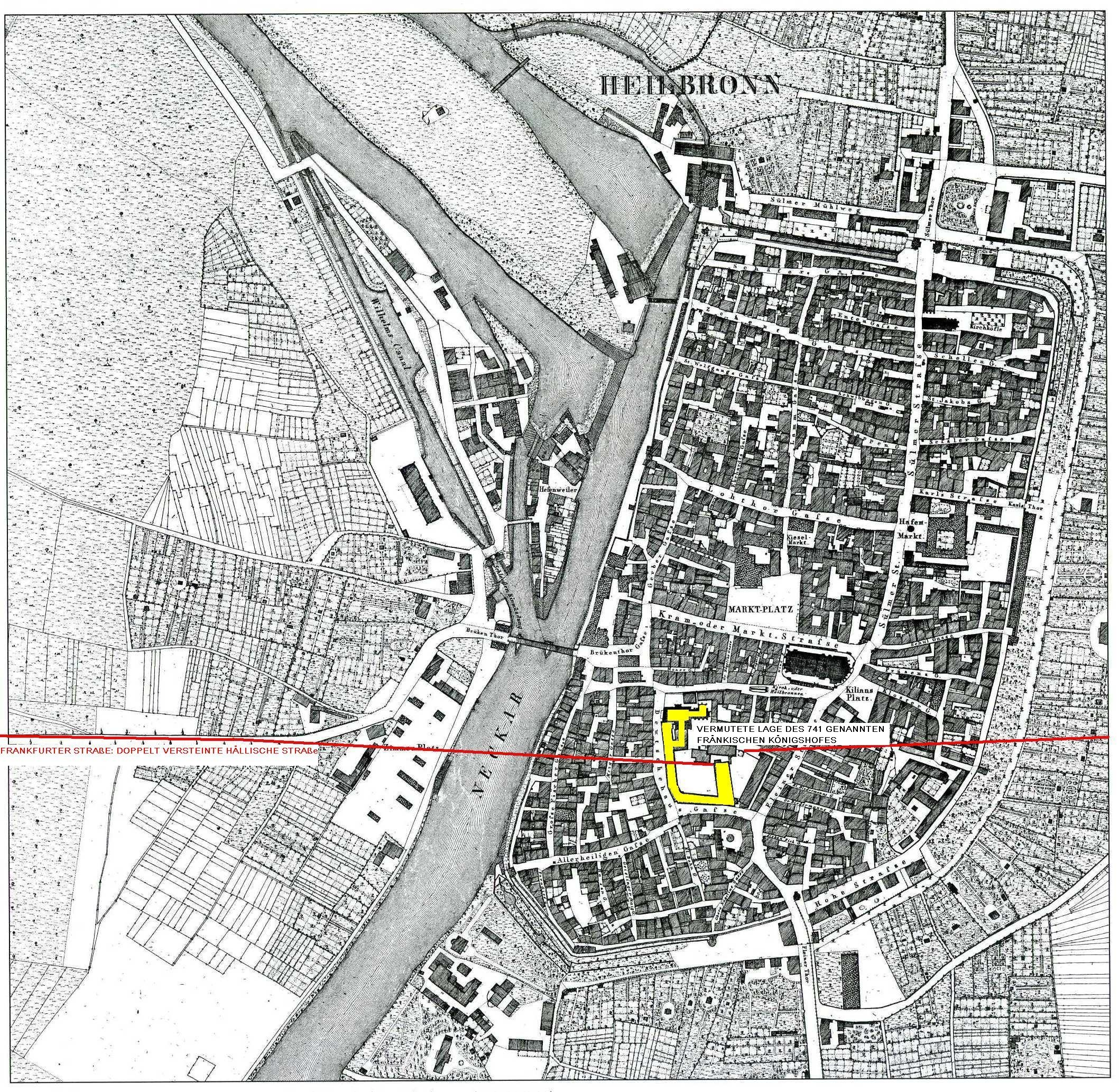 Historische Flurkarte von 1834 Heilbronn